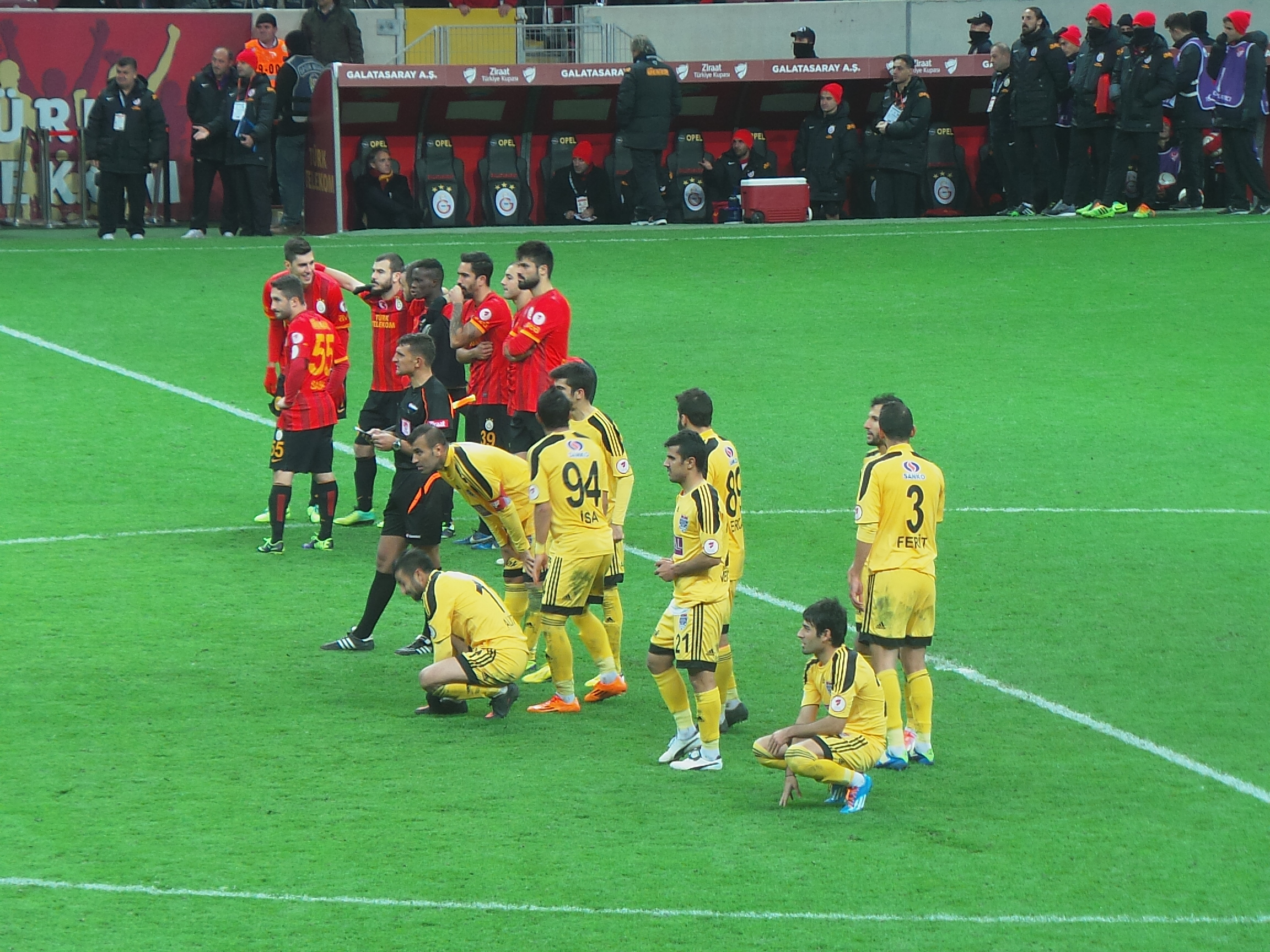 Galatasaray - Gaziantep BB (1)